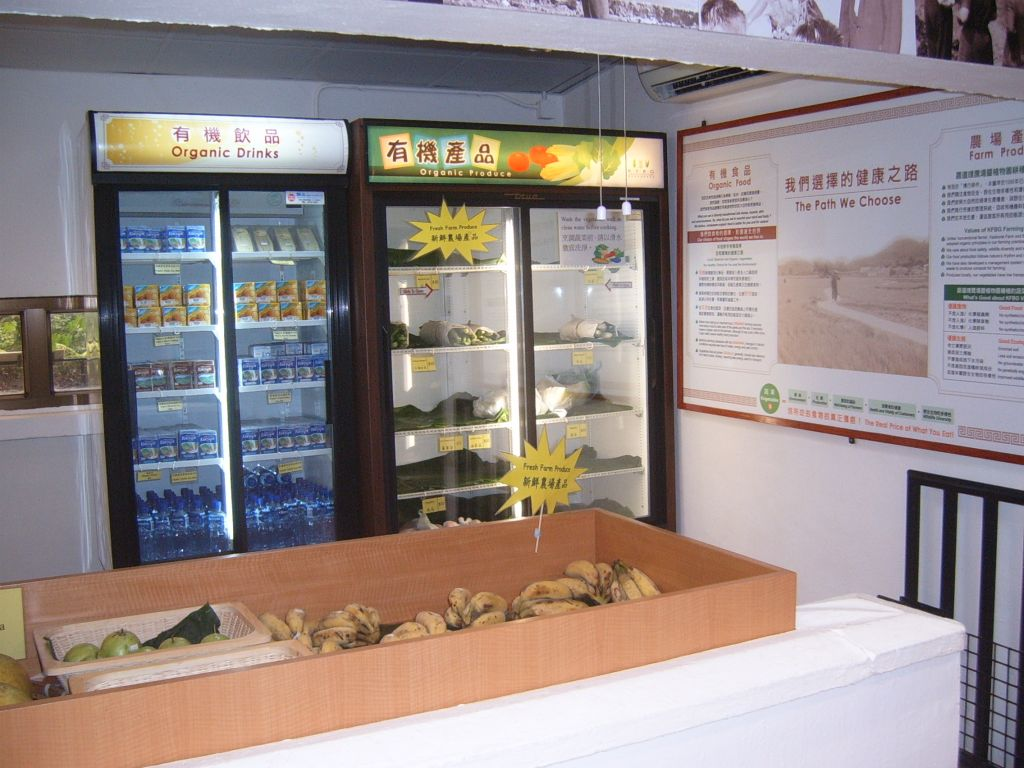 Kadoorie Farm and Botanic Garden, Lam Tsuen, Tai Po, Hong Kong. Photo taken by myself (User:Sl) on 23 September 2006. 香港大埔林村嘉道理農場暨植物園。